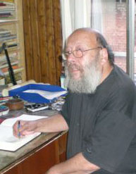 Pierre Schwarz at work.